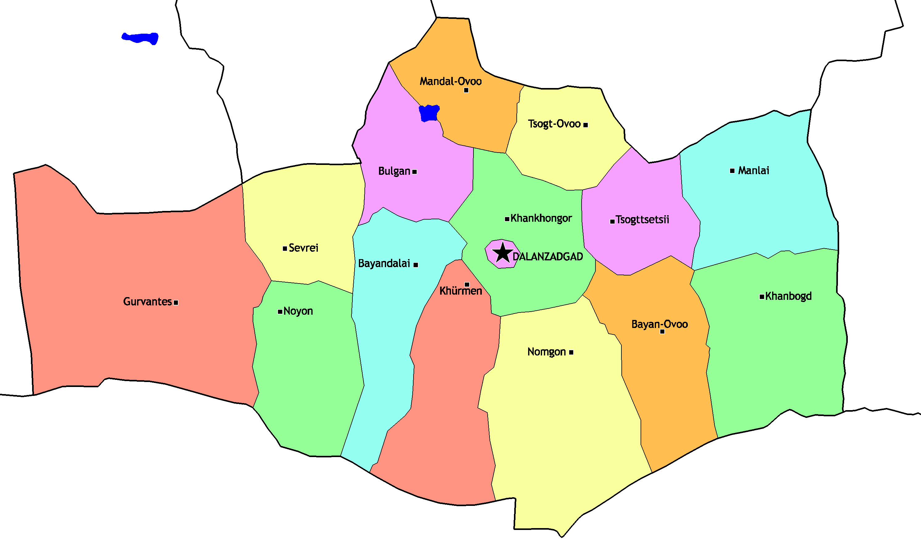 Map of the Omnogovi aimag with the sums